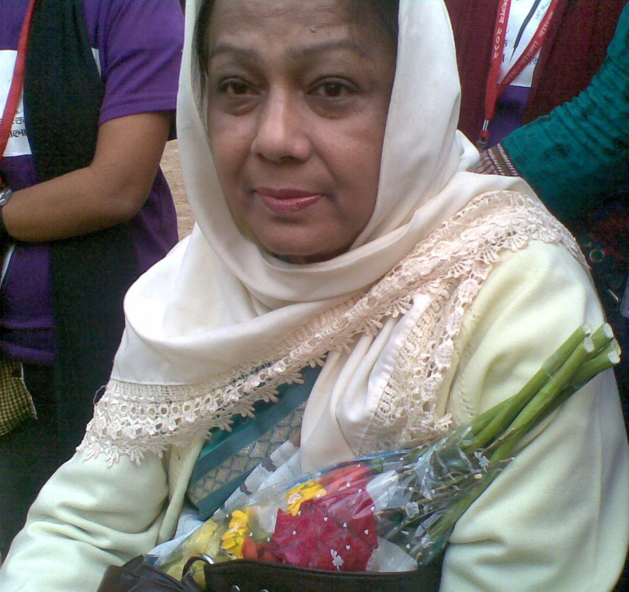 একটি অনুষ্ঠানে রানী হামিদ